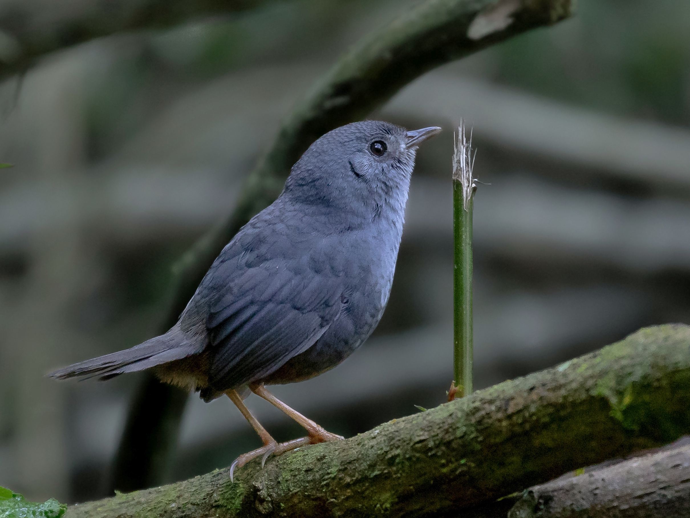 Rock tapaculo; Monteiro Lobato, São Paulo, Brazil